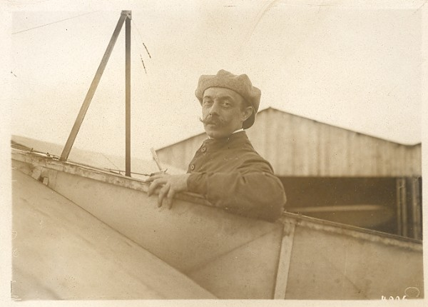 The french senator Emile Reymond (1865-1914)